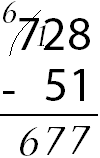 Subtraction Example